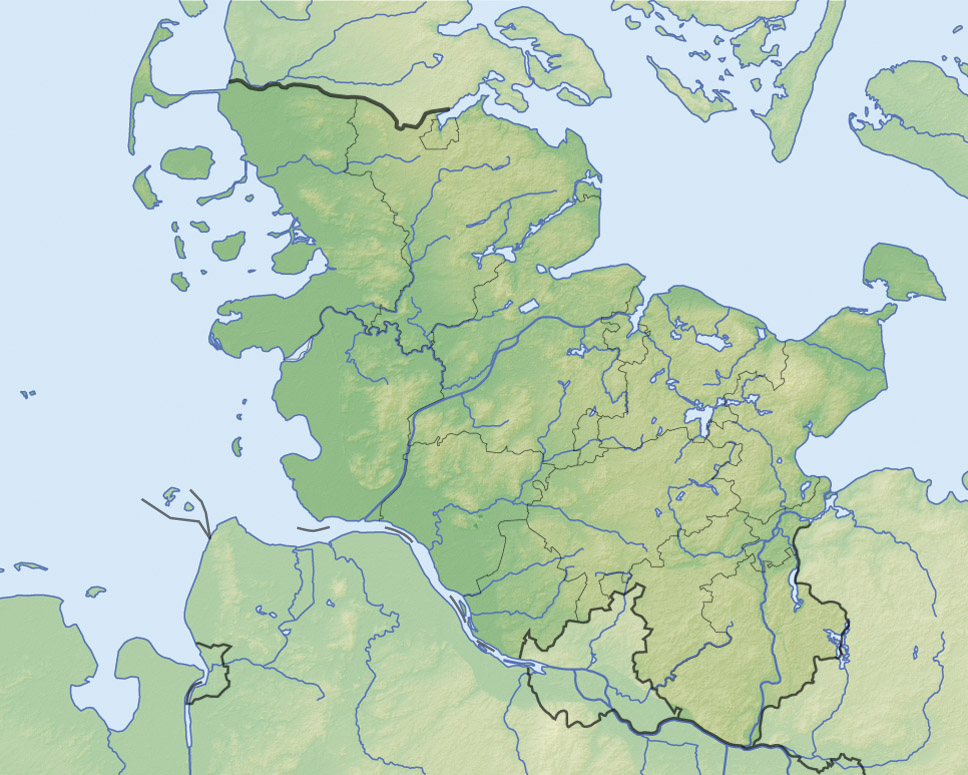 Physical location map of Schleswig-Holstein, Germany Equirectangular projection, N/S stretching 160 %. Geographic limits of the map: N: 55.1° N S: 53.3° N W: 7.8° E E: 11.4° E